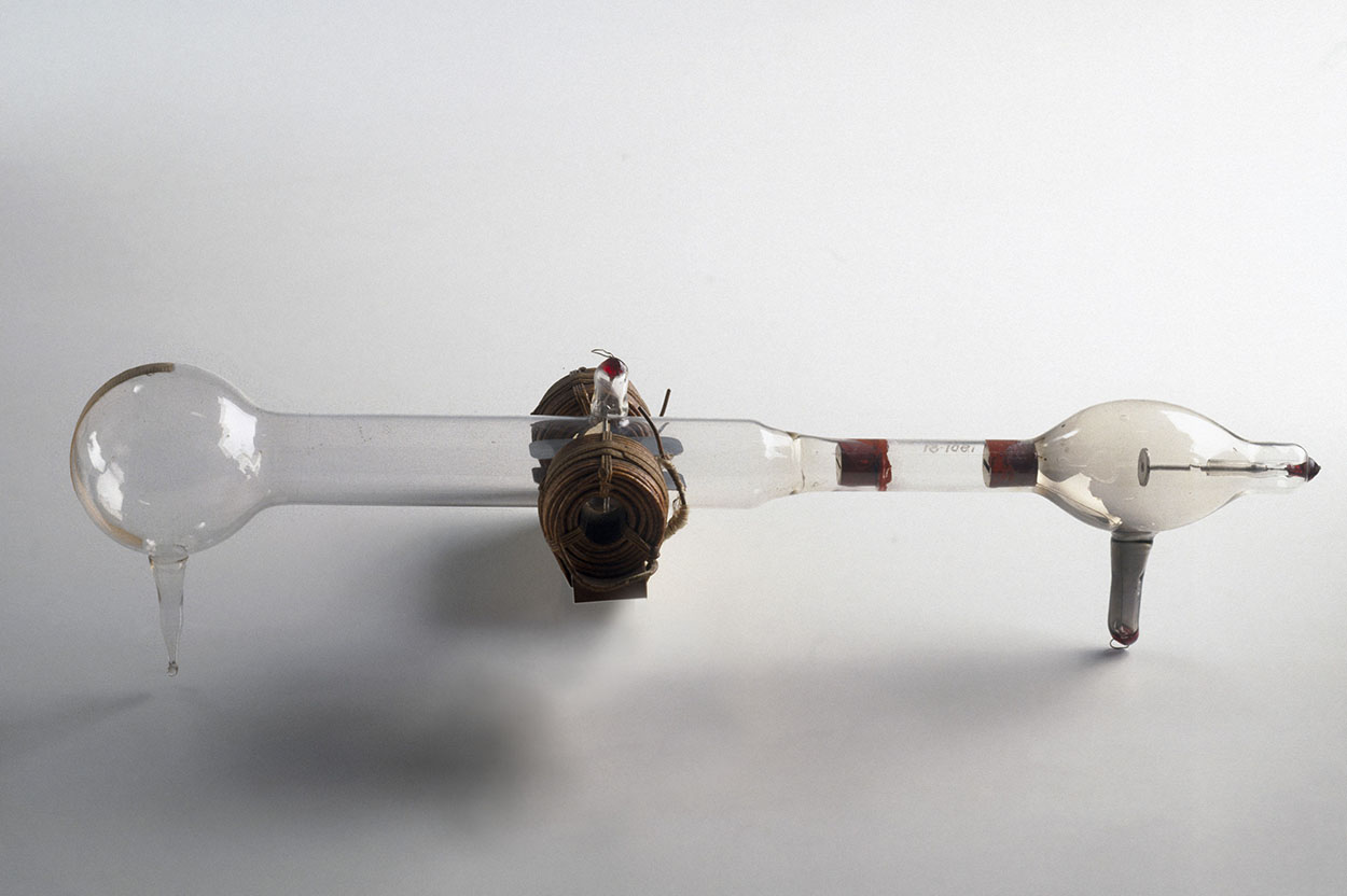 This apparatus was used to discover the electron. In 1896, in Cambridge, Joseph John Thomson (1856-1940) began experiments on cathode rays. In Britain, physicists argued these rays were particles, but German physicists disagreed, thinking they were a type of electromagnetic radiation. Thomson showed that the cathode rays were particles with a negative charge and much smaller than an atom. He published this information in April 1897; the particles were later named electrons. Apparatus shown without its stand.